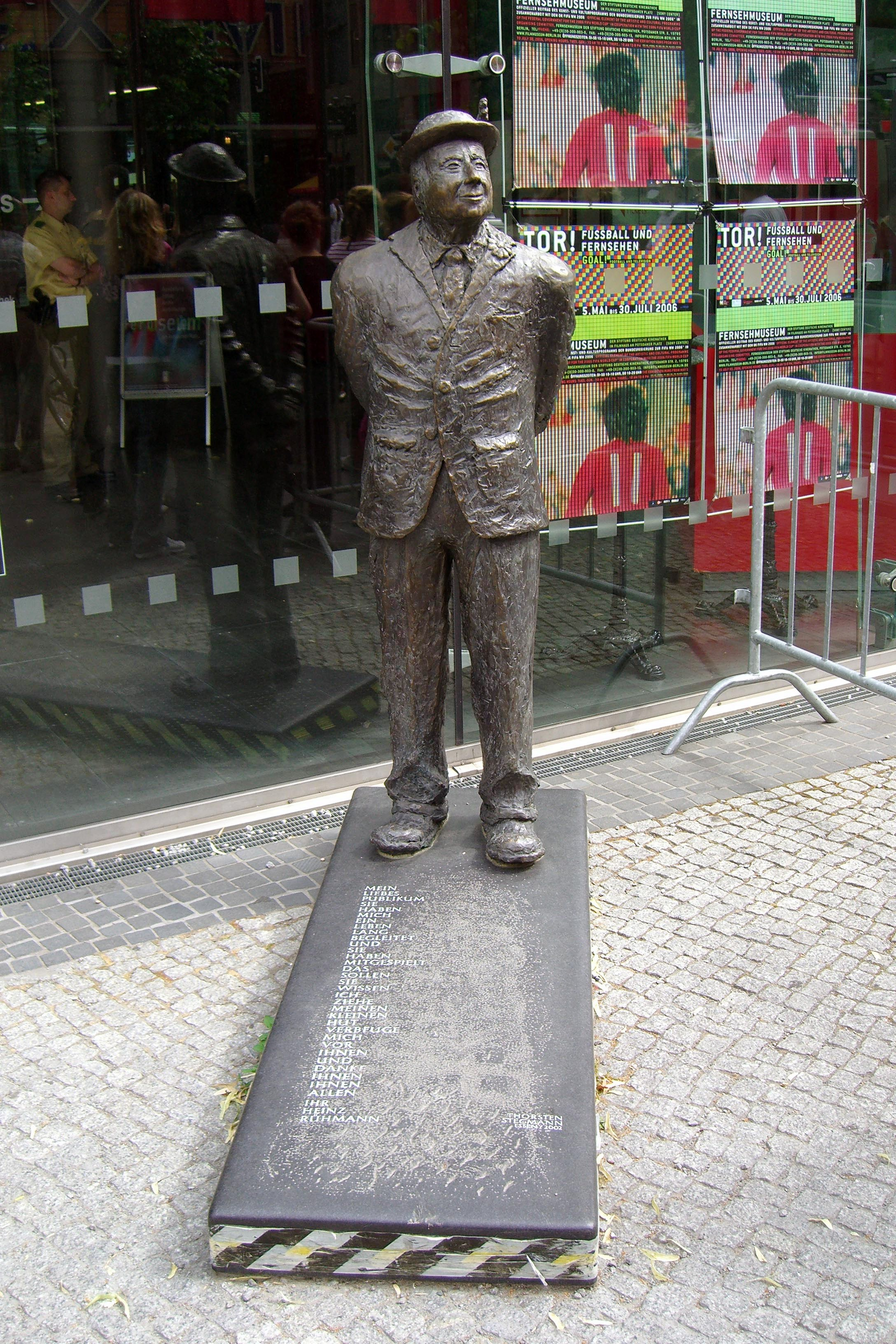 bronze statue of the german actor Heinz Rühmann (1902–1994) in Berlin